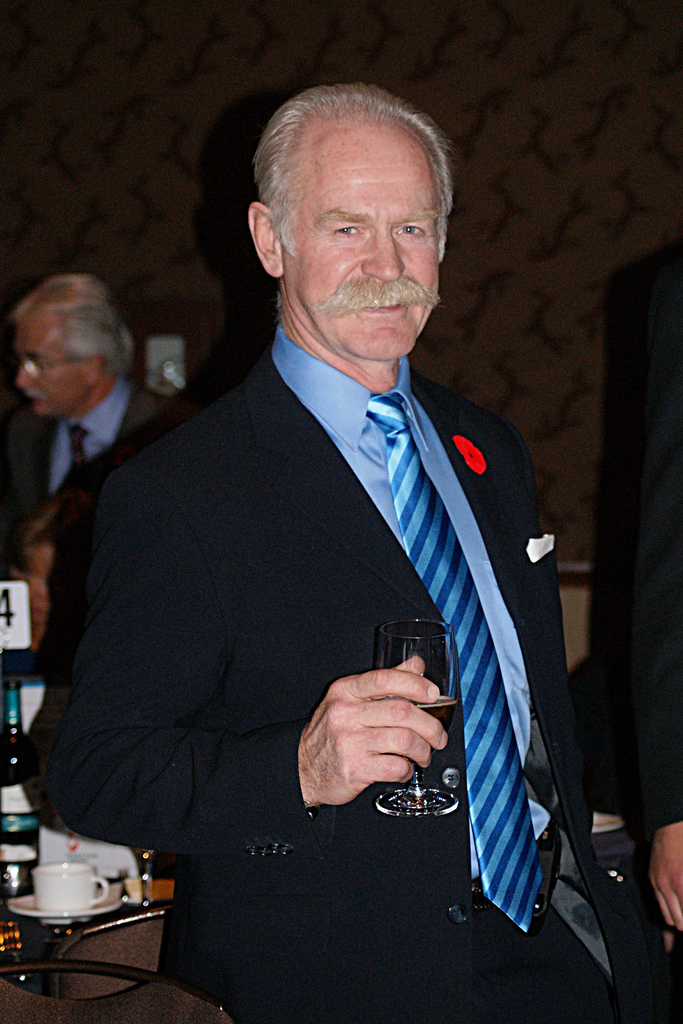 Lanny McDonald at Canada's Sports Hall of Fame Induction Dinner, November 10, 2010 at Calgary, Alberta.